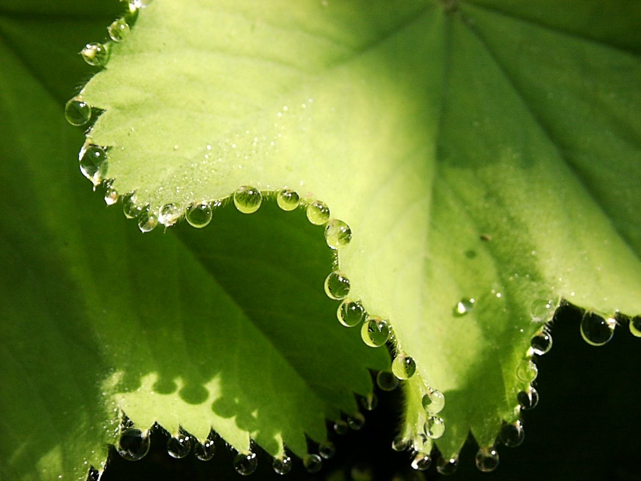 droplets